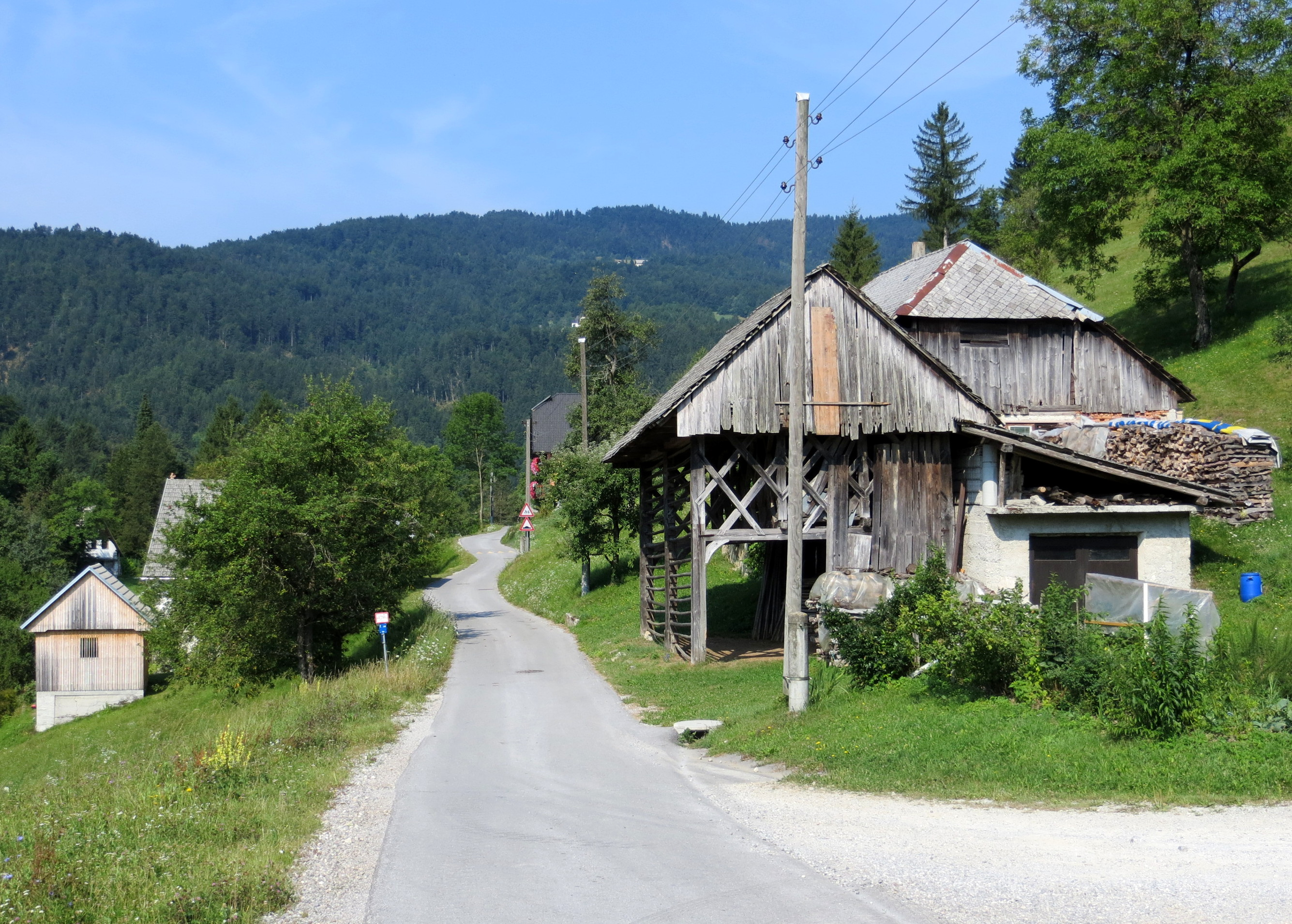 Podgora, Municipality of Gorenja Vas–Poljane, Slovenia